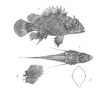 This is an image entitled "Scorpaena Stokesii" from Volume 1 of John Lort Stokes' 1846 book Discoveries in Australia. The fish species depicted is now known as Parascorpaena picta.